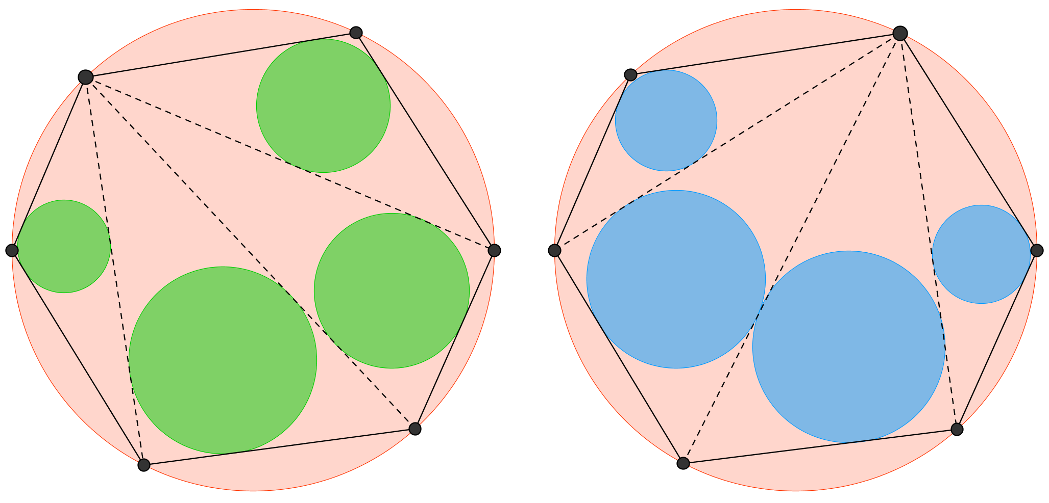 Japanese theorem : Sangaku